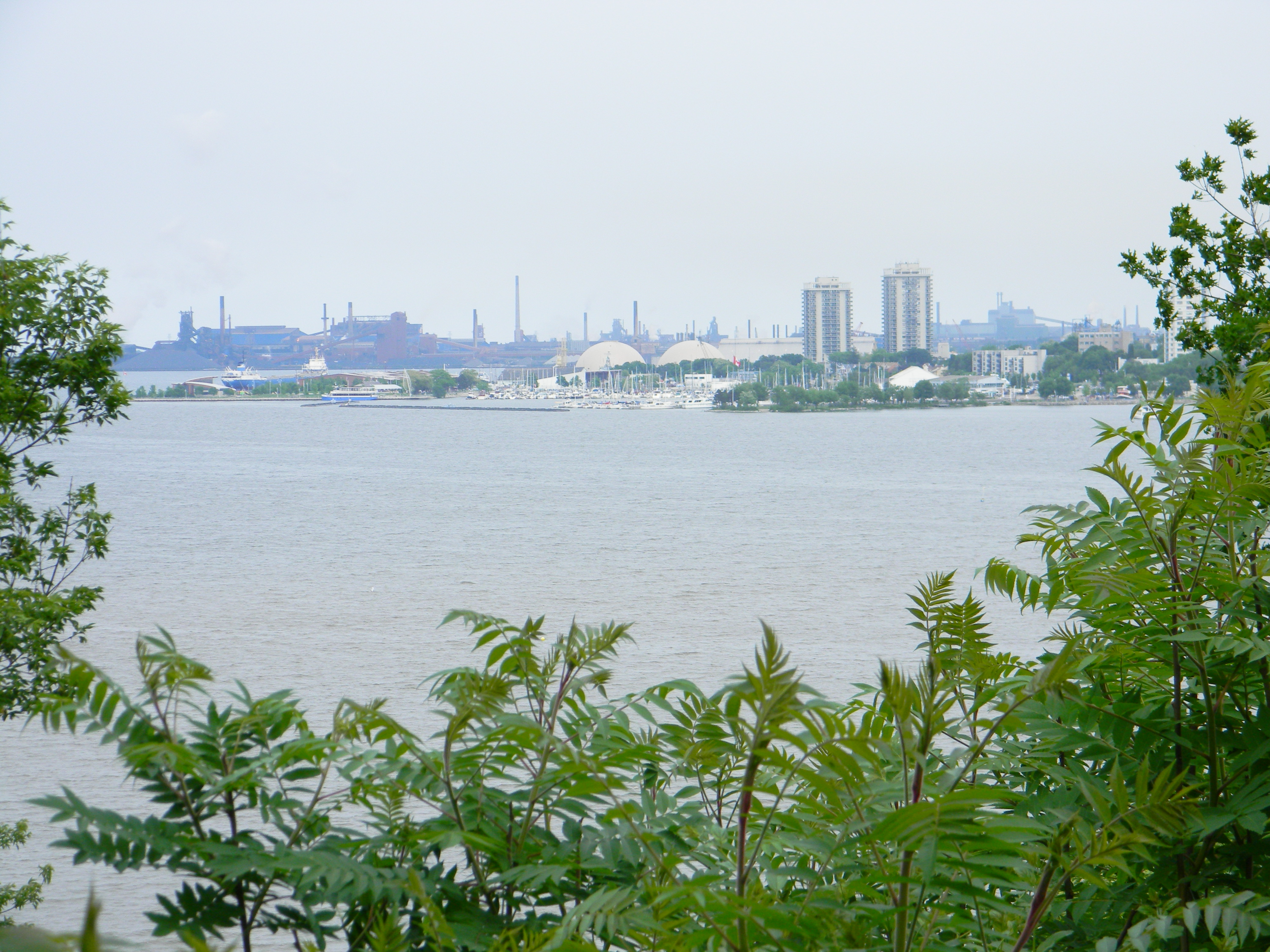 Hamilton Waterfornt, Marina and on background Dofasco